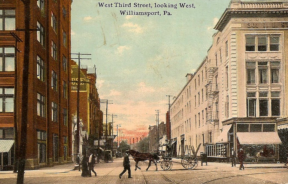 Williamsport postcard